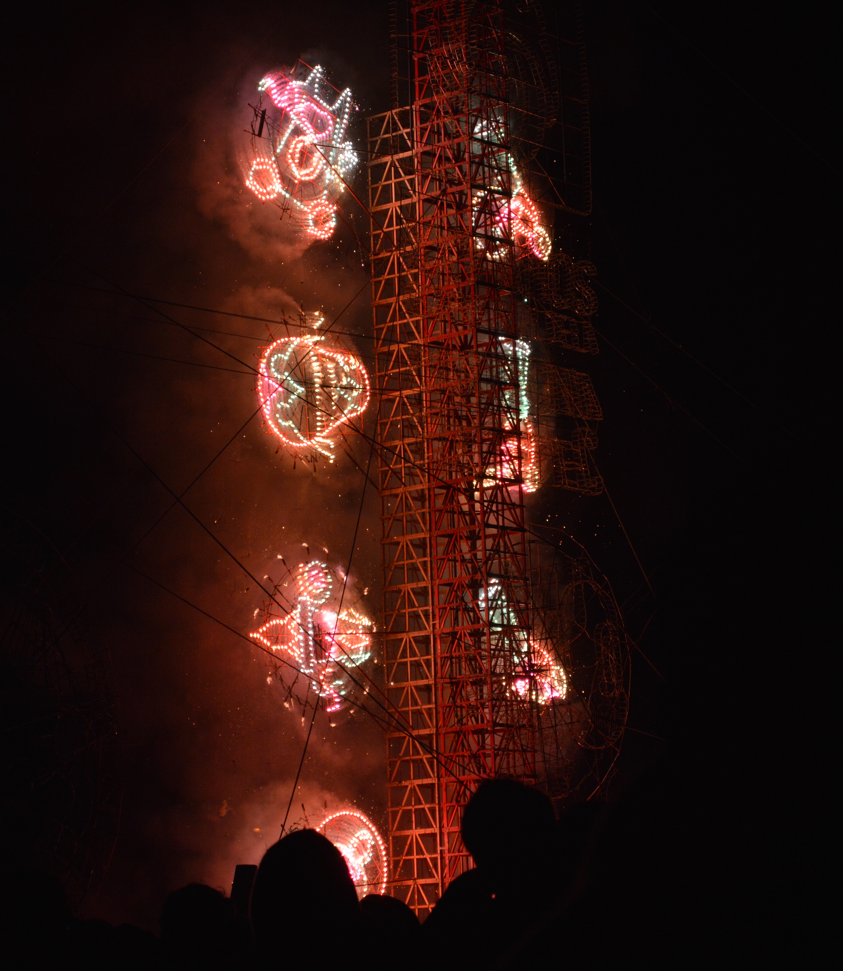 Sections of fireworks castles lit at the Feria Nacional de Pirotecnia in Tultepec, State of Mexico, Mexico